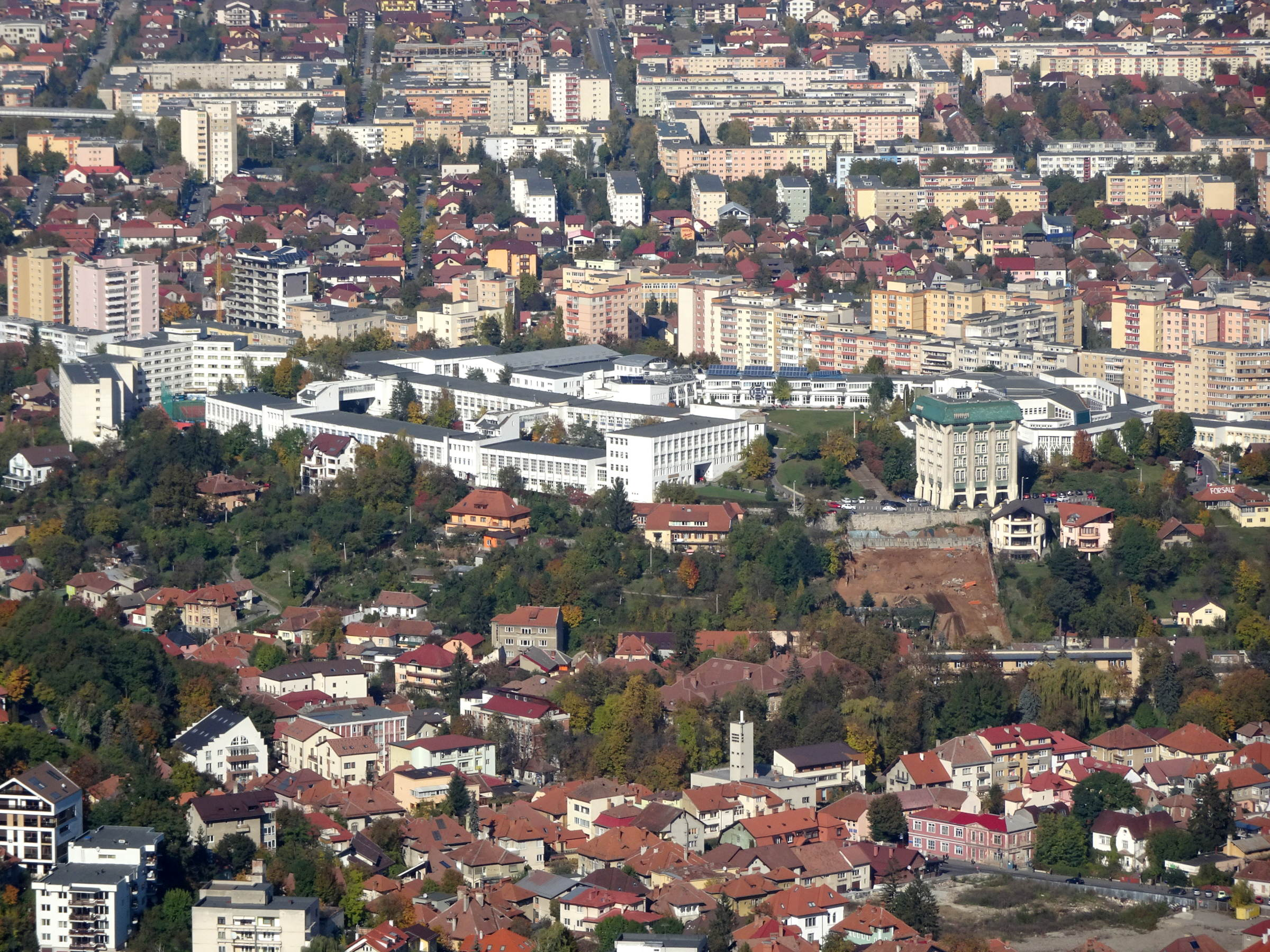 University buildings on Dambul Morii hill (Colina Universitatii)